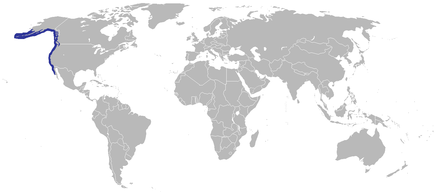 Map of the world in 1935.